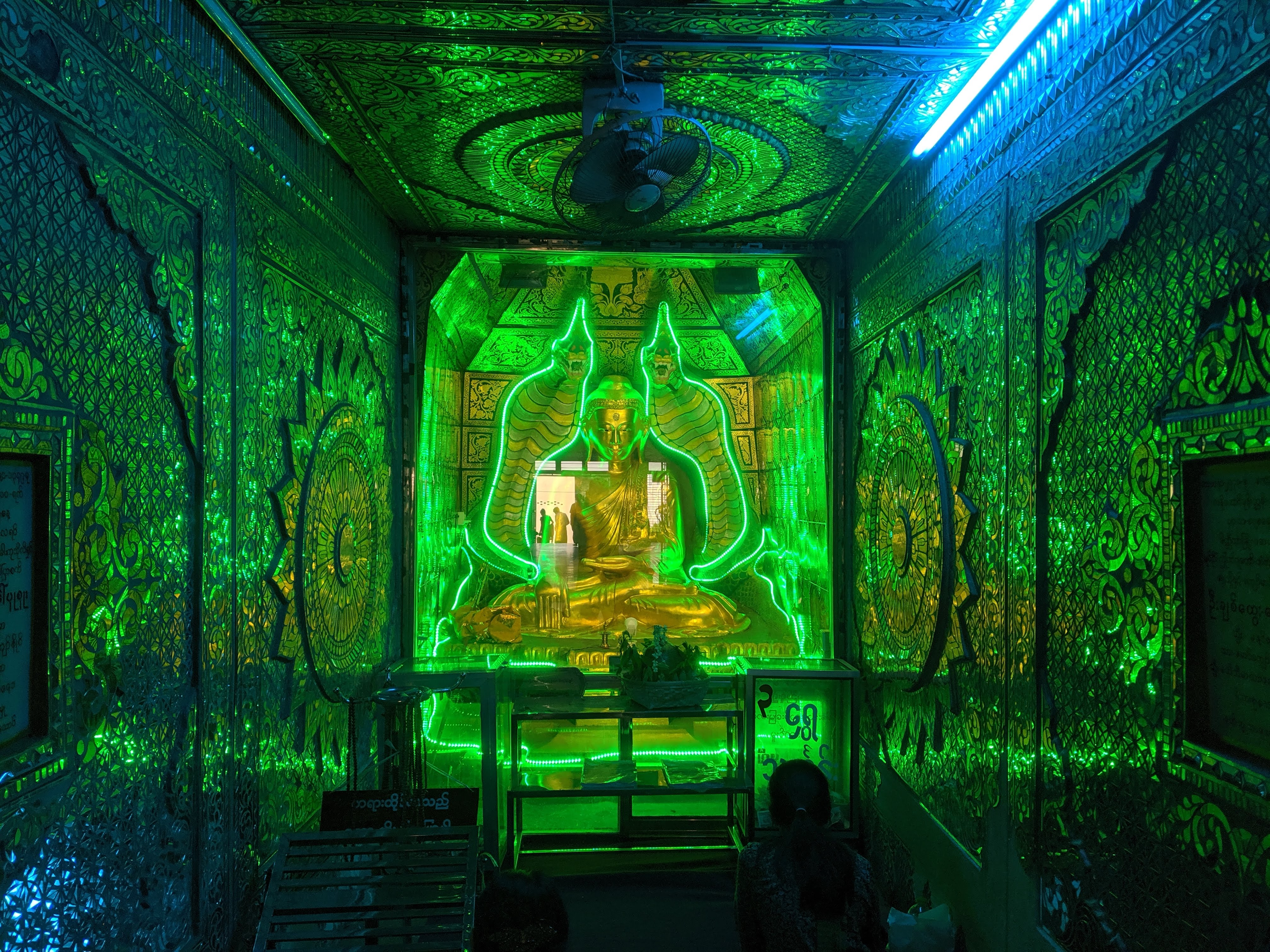 Nagayon Pagoda, Meiktila, Myanmar